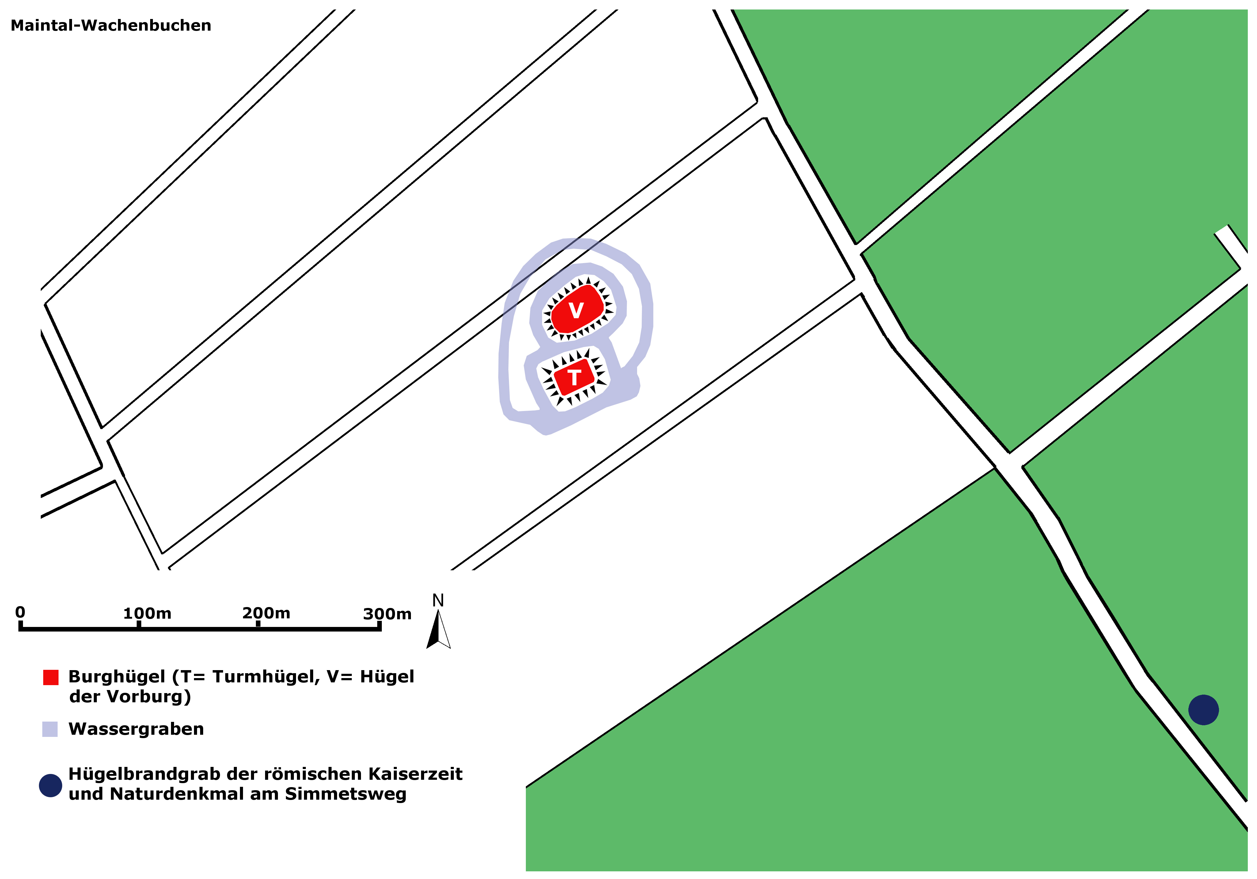 Plan of Castle Wachenbuchen, Maintal-Wachenbuchen, Hesse.